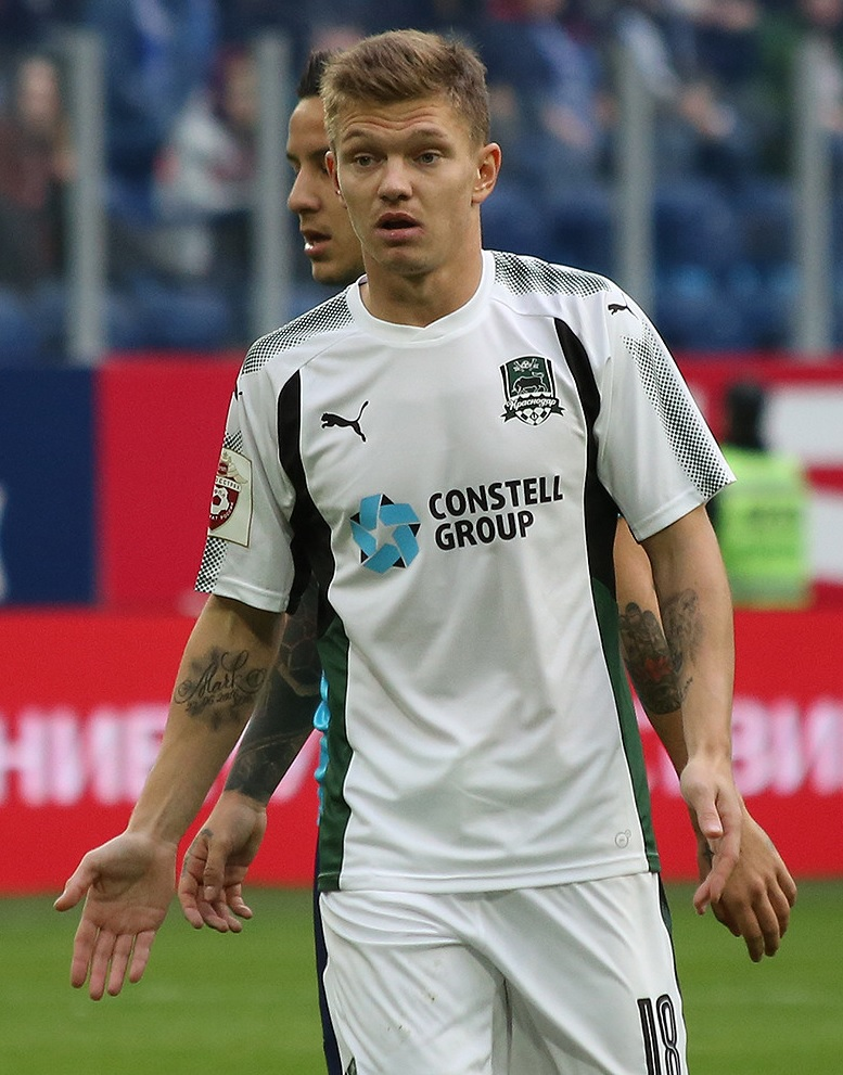 Oleg Shatov with FC Krasnodar in a game against FC Zenit Saint Petersburg.